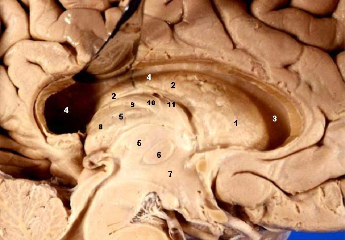 Human brain left dissected - midsagittal view Fornix & Septum Pellucidum Resected – Lateral Ventricle Exposed The head and body of the Caudate nucleus produce a large elevation in the lateral wall of the anterior horn and body of the lateral ventricle Nucleus caudatus, Caput Nucleus caudatus, Corpus Ventriculus lateralis, Cornu frontale Ventriculus lateralis, Pars centralis Thalamus Adhaesio interthalamica Hypothalamus, Ventriculus tertius Pulvinar thalami Taenia choroidea Lamina affixa Stria terminalis (font: arial black, size: 10)